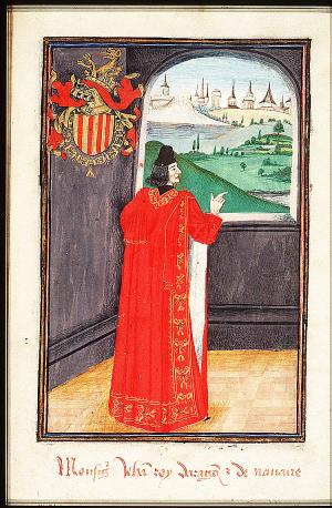 Statuts, Ordonnances et Armorial de l'Ordre de la Toison d'Or (Statutes, Ordonnances and armorial of the Order of the Golden Fleece) Place of origin, date: Southern Netherlands; 1473. Added sections: Southern Netherlands; 1478 or shortly after and 1491 or shortly after Material: Vellum, ff. 86, 249x187 (167x106) mm, 23 lines, littera cursiva (lettre bourguignonne). French. Binding: 18th-century brown leather Decoration: 1 full-page miniature (170x115 mm) with border decoration; 92 miniatures (185/155x120/100 mm); 1 historiated initial (80x90 mm) with border decoration; decorated initials with border decoration (ff., Added section: miniatures ; 4 drawings for miniatures (not finished) Provenance: Presented in 1473 by Gilles Gobet, King of Arms of the Order of the Golden Fleece, to Charles the Bold, Duke of Burgundy and the other Knights during the Chapter of the Order held at Valenciennes; Treasure of the Golden Fleece, Brussls; taken away by the Treasurer C.-F. Humyn (d. 1735) or his daughter C.Ch. de Corte; by legacy to her daughter M.-L. de Corte, wife of Ph.-E. de Poederlé; purchased in 1781 at the Poederlé sale by G.-J- Gérard of Brussels; acquired in 1832 as part of the Gérard collection (no. A 27)